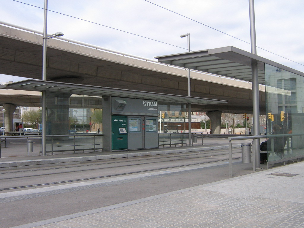 La Farinera Trambesòs station (Barcelona)